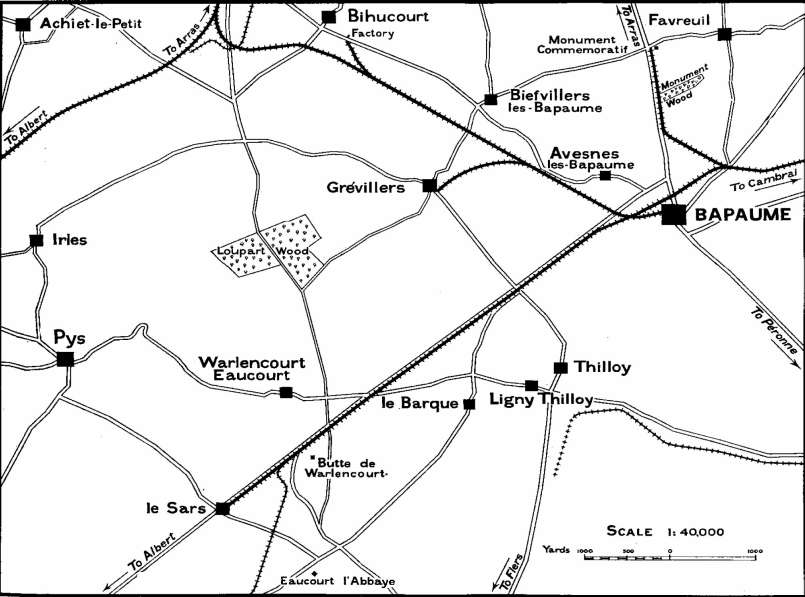 Contour map of the area of Bapaume and surrounds, August 1918